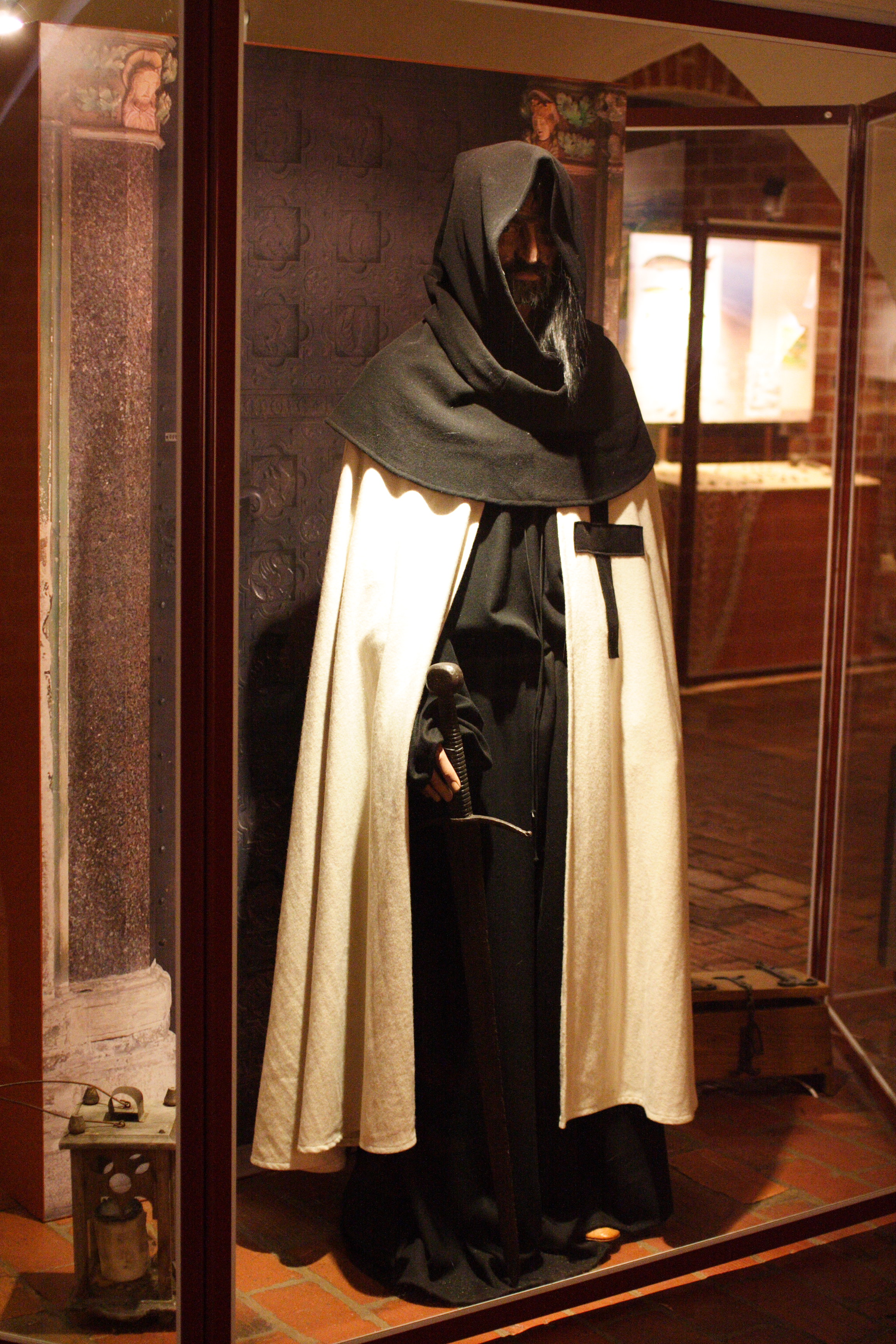 Castle in Malbork, Teutonic Knight, reconstruction